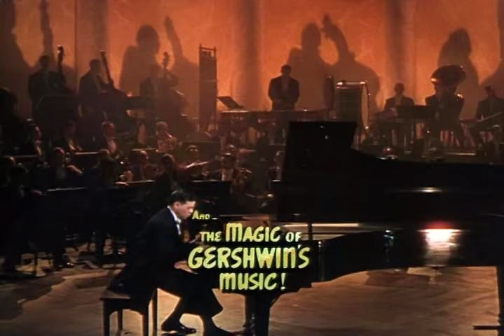 Oscar Levant (playing the Gershwin's Piano Concerto in F) in An American in Paris - trailer (cropped screenshot)